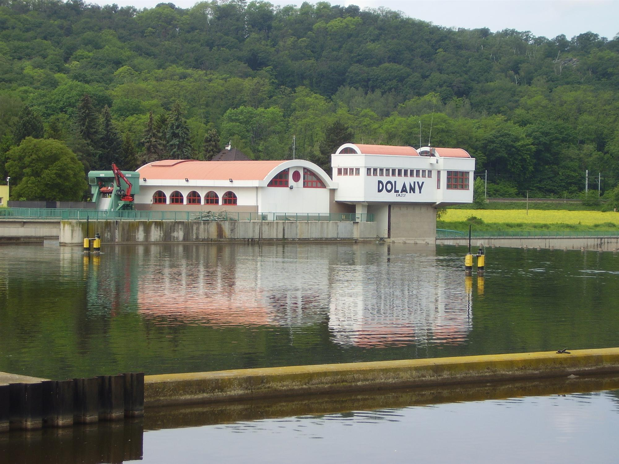 Weir with power plant on the Vltava between Libčice nad Vltavou and Dolany